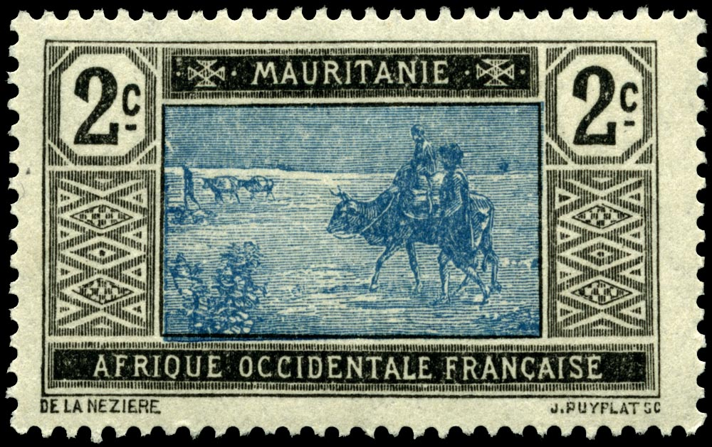 Mauritania (French West Africa) 2c stamp of 1913, Scott No. 13